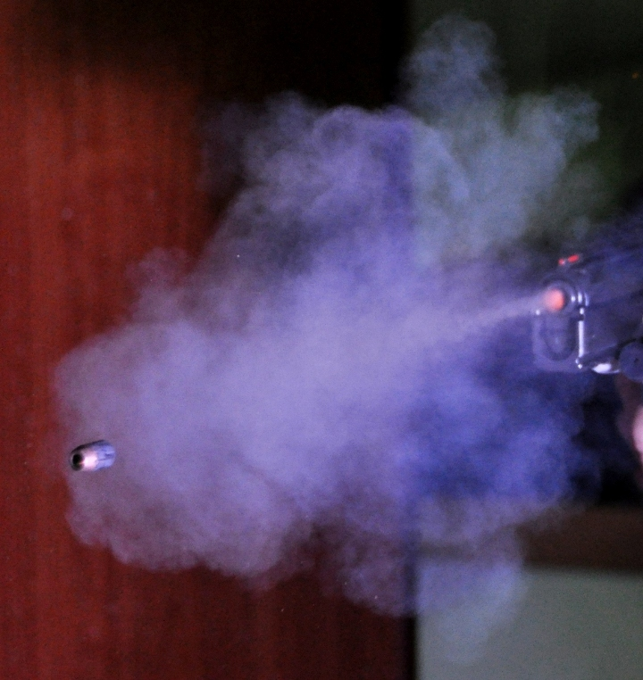 9mm-hollowpoint from a CZ75 pistol, photographed with an air-gap flash